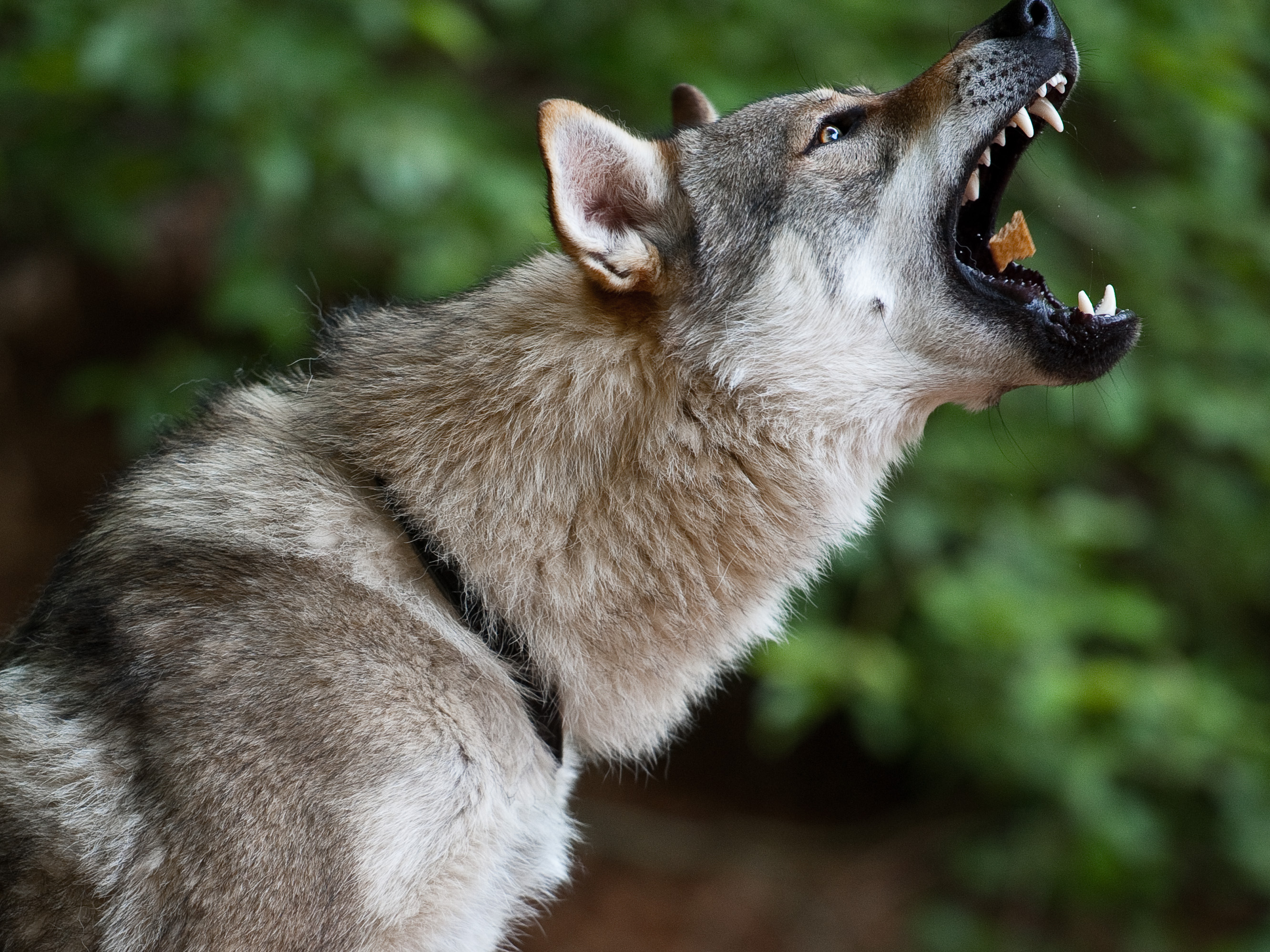 The Czechoslovakian Wolfdog is a relatively new breed of dog from Eastern Europe. It is a cross between a German Shepherd and a Eurasian wolf. It looks mostly like a wolf but behaves like a dog. Until 2008 it was classified a 'Dangerous Wild Animal' in the UK.